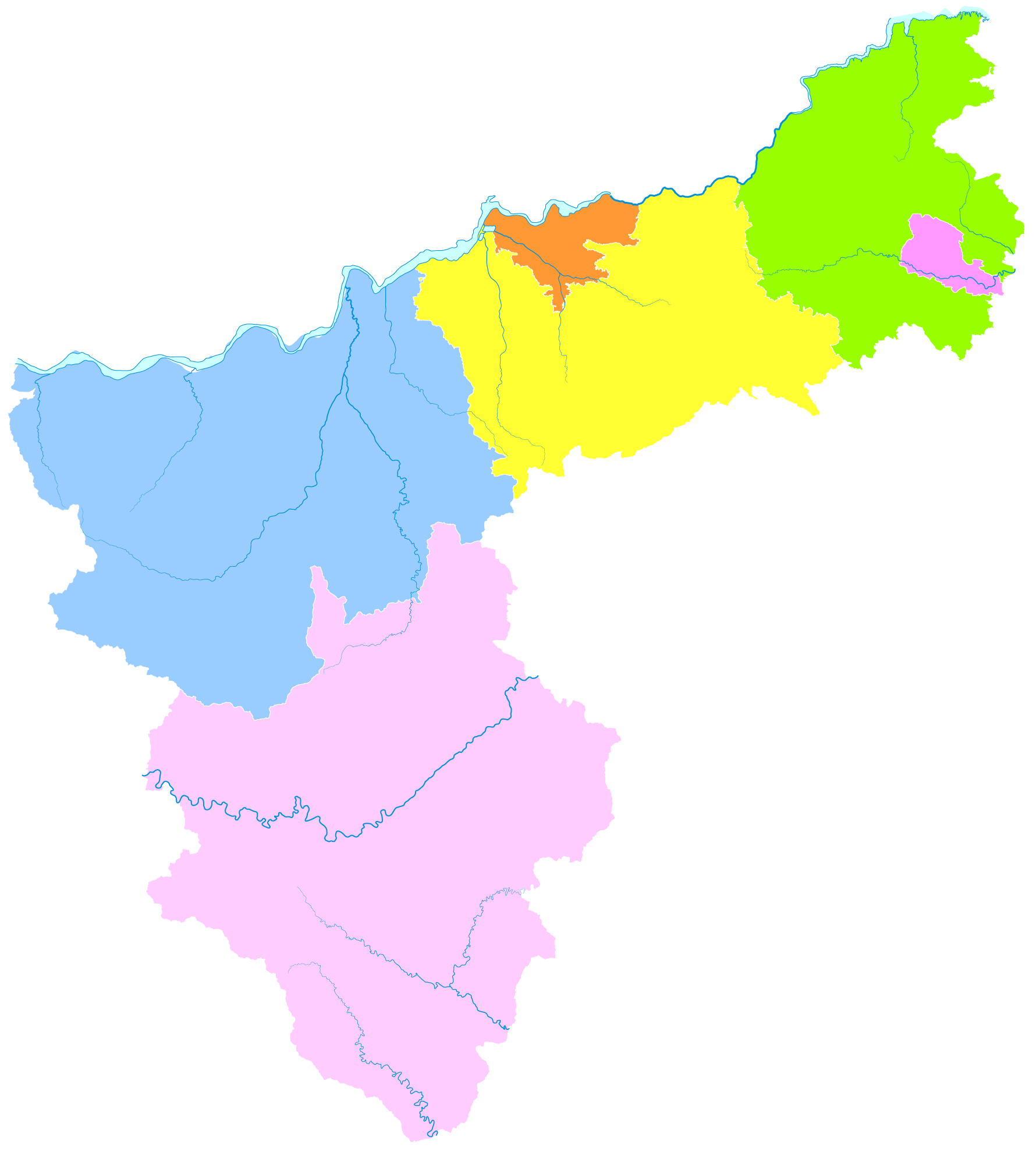 administrative divisions of Sanmenxia City, Henan, China